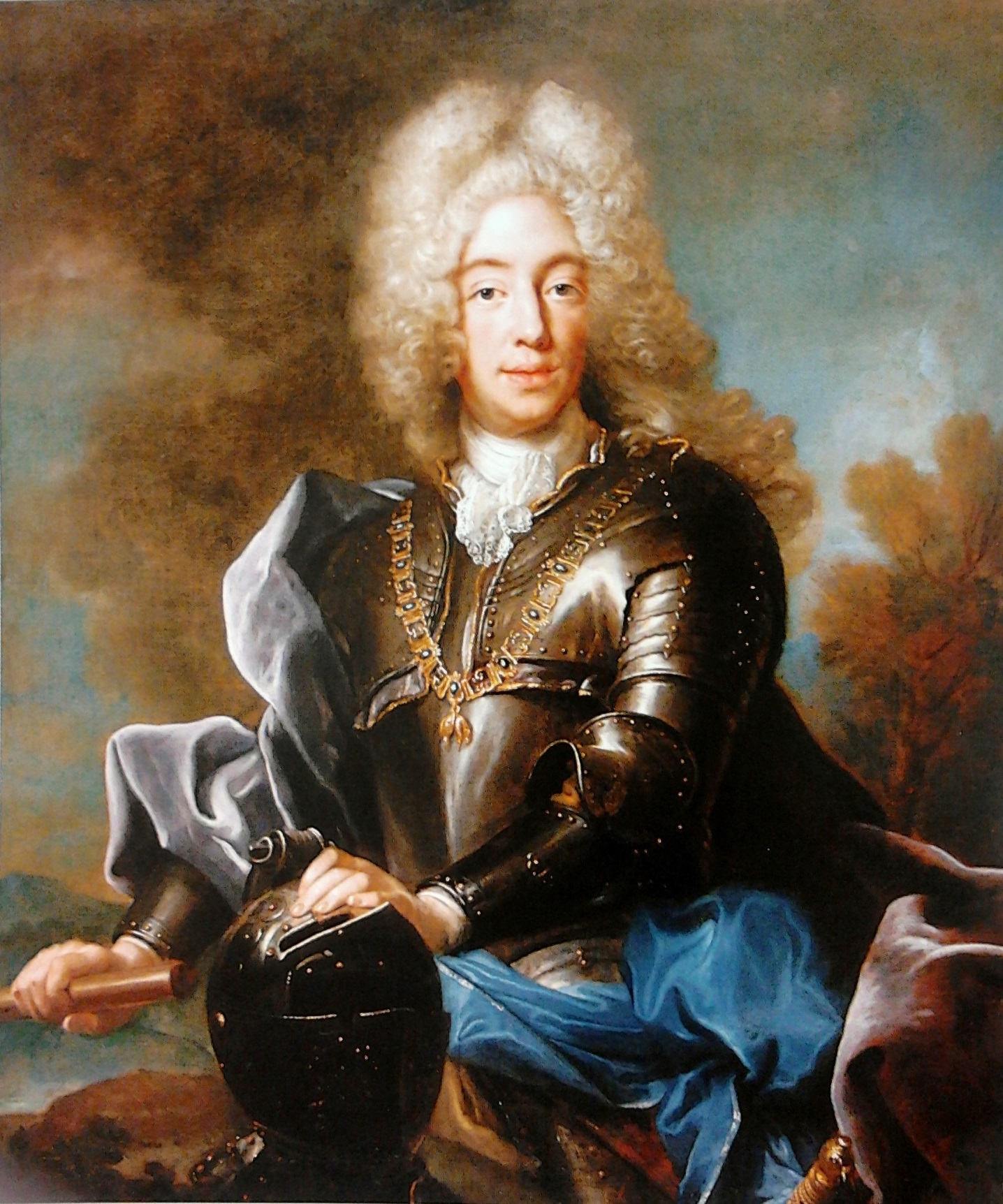 So-called portrait of Maximilian II Emanuel, Elector of Bavaria (1662-1726), but probably portrait of the Elector Charles Albert (1697-1745)